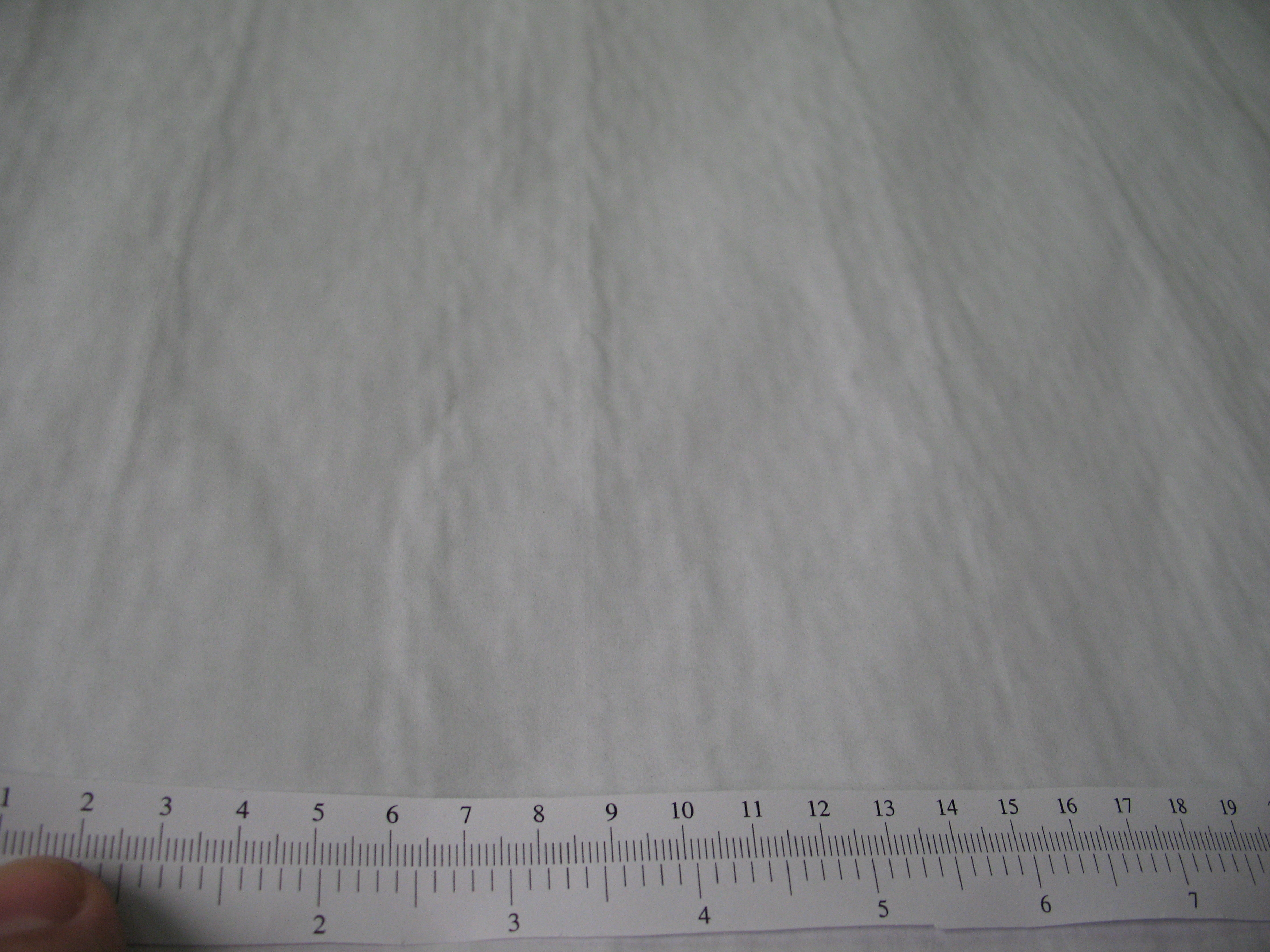 Back side of cheap uncoated wide-format plotter paper heavily soaked with inkjet printer ink. The swelled cellulose fibers revert back to their pre-pressed state, showing the papermaking mesh belt pattern on which the wet fibers collected prior to pressing and sizing.